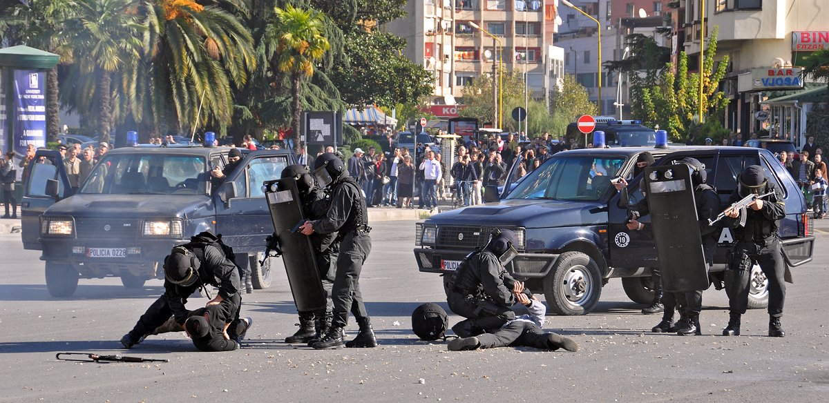 RENEA exhibiting at ALMEX 2010